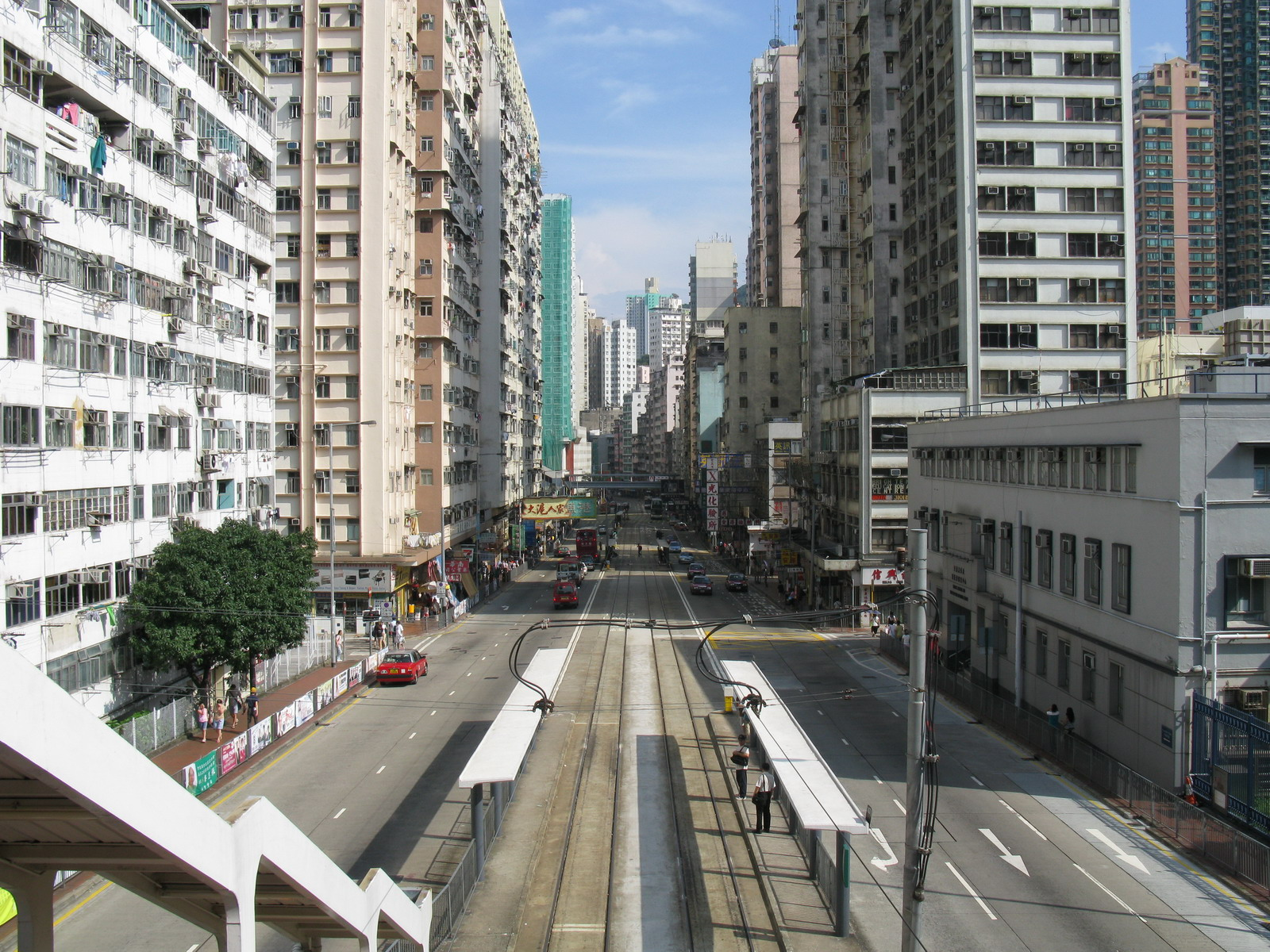 Shau Kei Wan Road, Sai Wan Ho